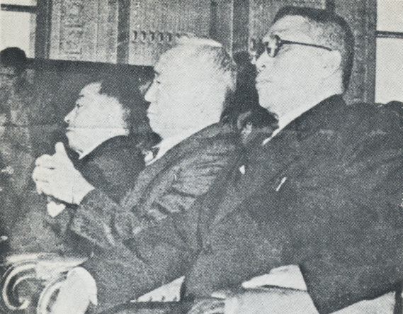 Syngman Rhee, Kim Gyusik, Kim Gu